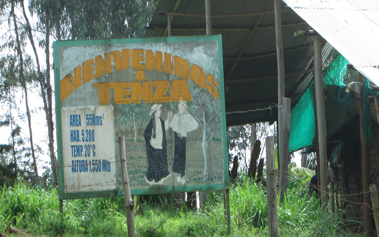 Tenza Boyaca